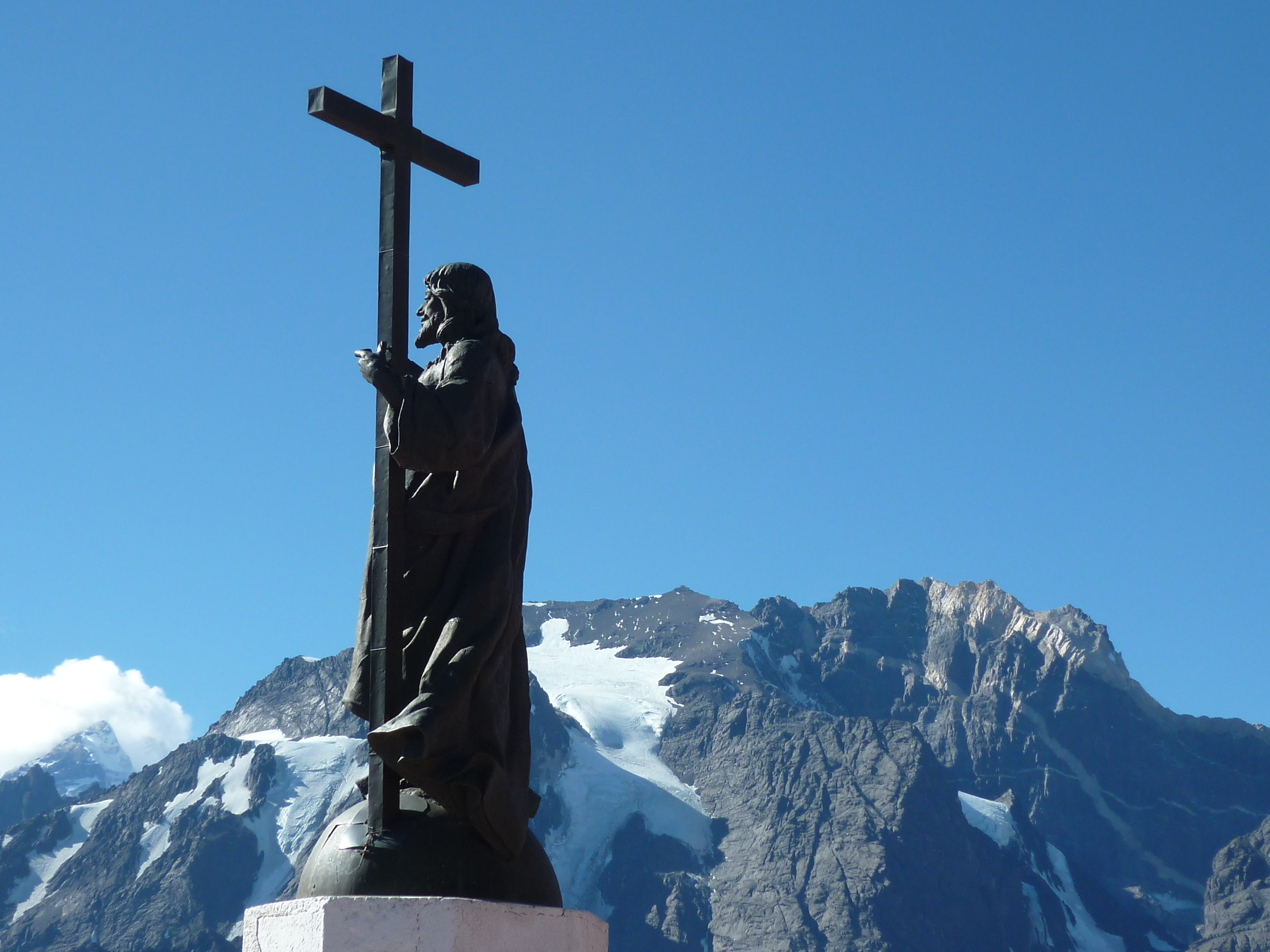 El Cristo Redentor